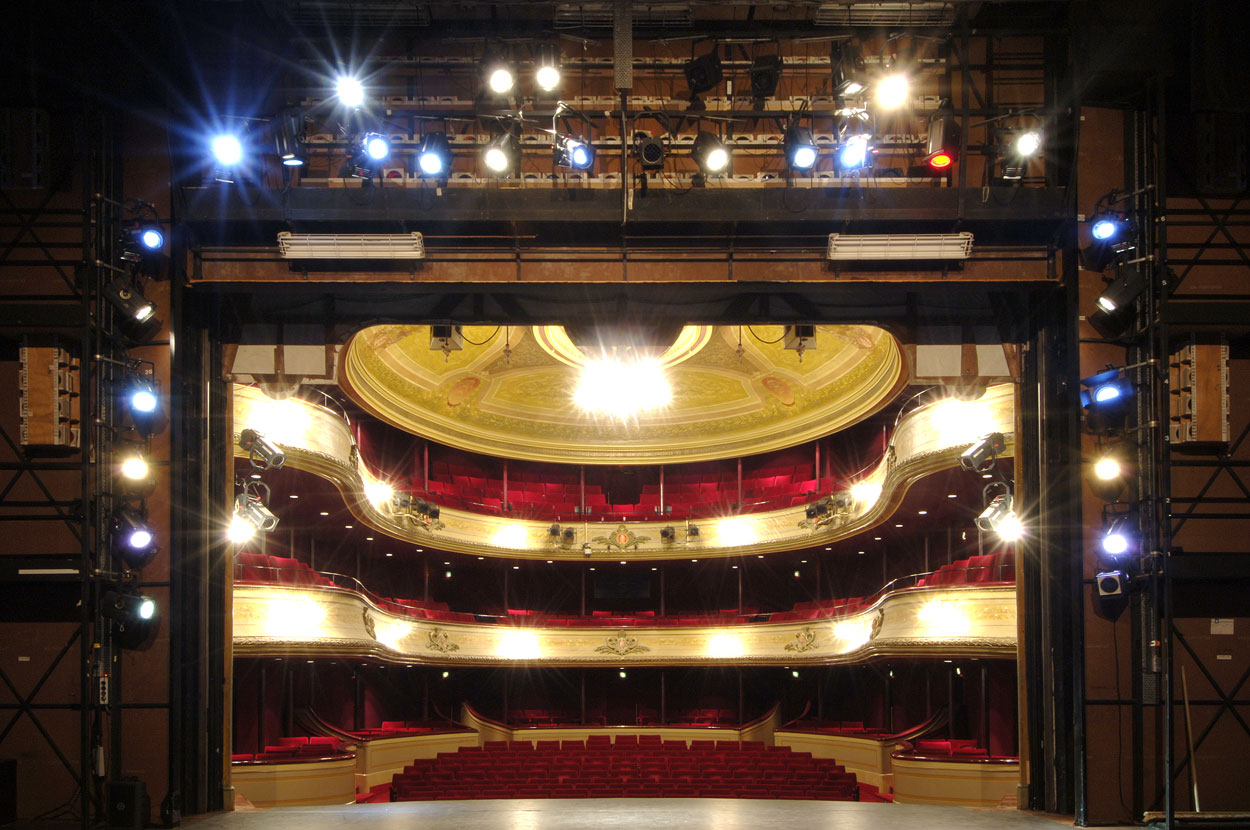 Foto Jan Scheerder. Permission explained here.